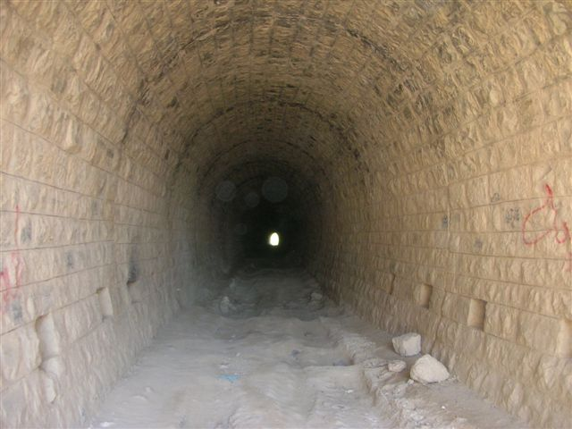 the train tunnel in the West Bank